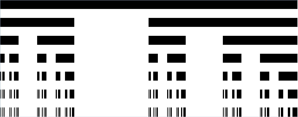 Asymmetric Cantor set in seven iterations